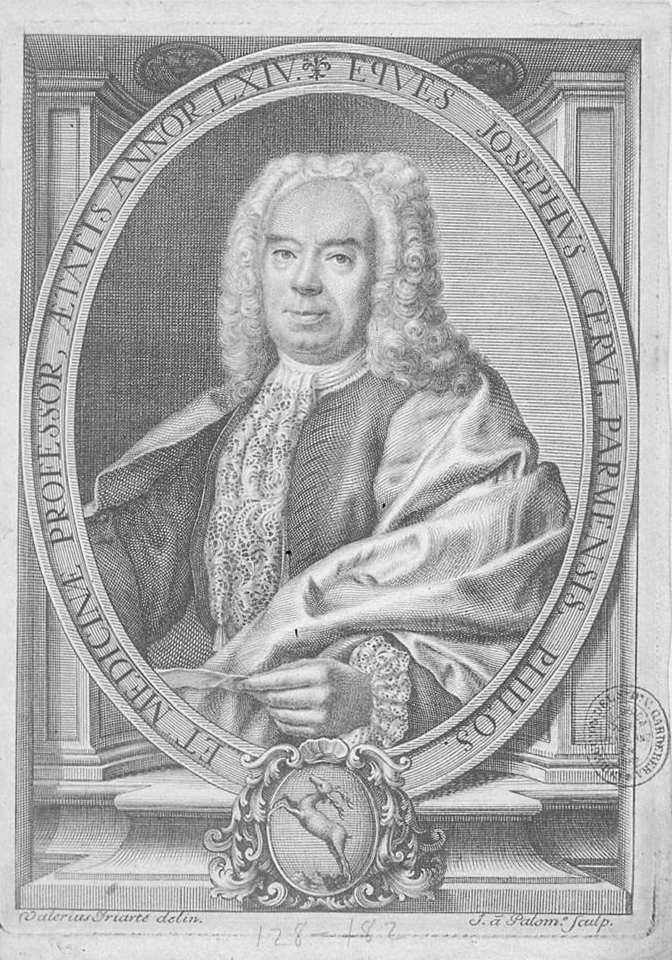 Italian botanic Giuseppe Cervi